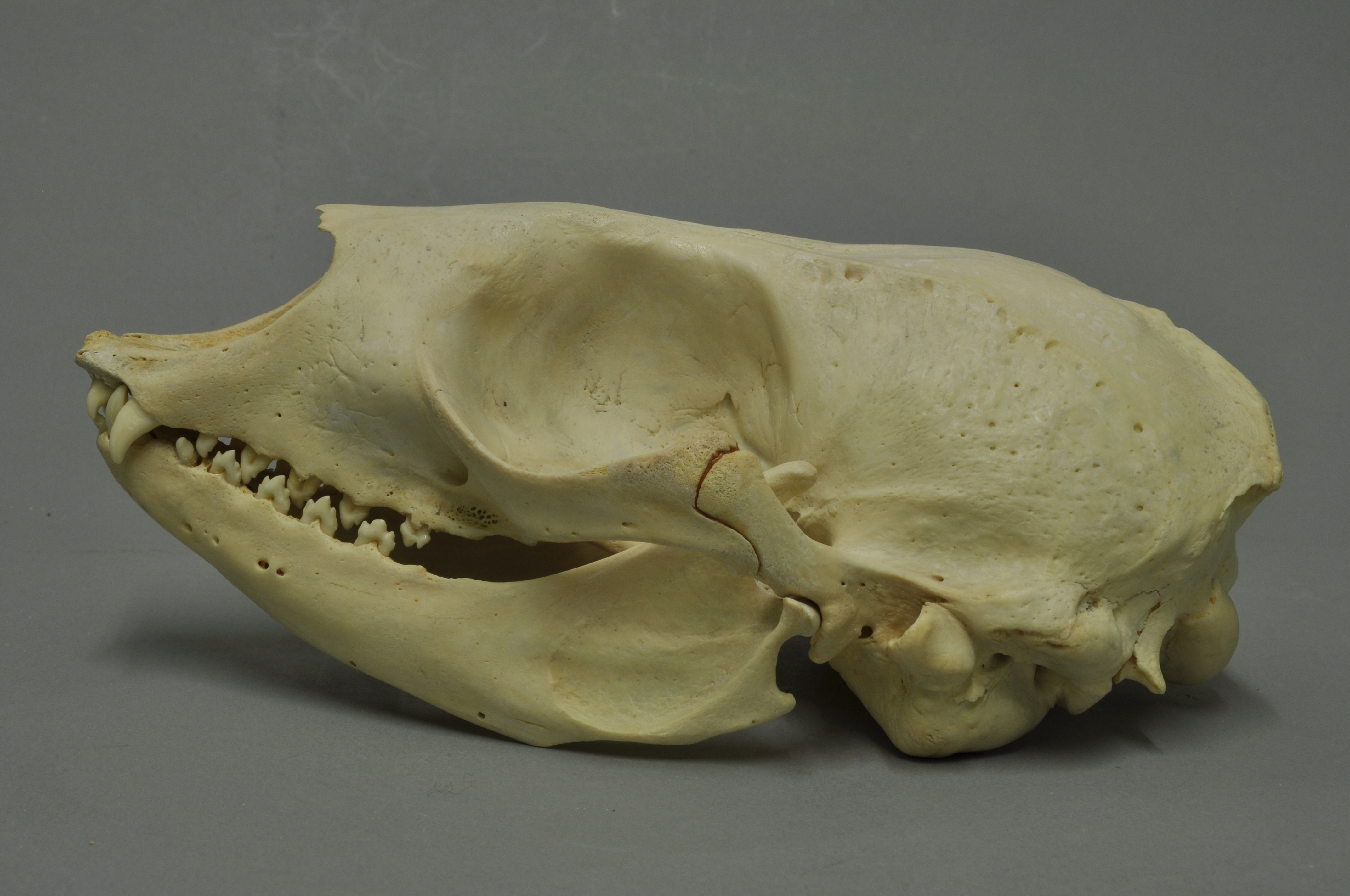 Harp seal Pagophilus groenlandicus, skull, Coll. Museum Wiesbaden